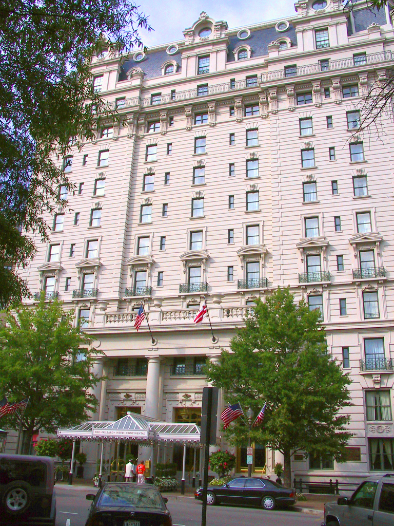 The main facade of the Willard InterContinental Washington hotel in Washington, DC